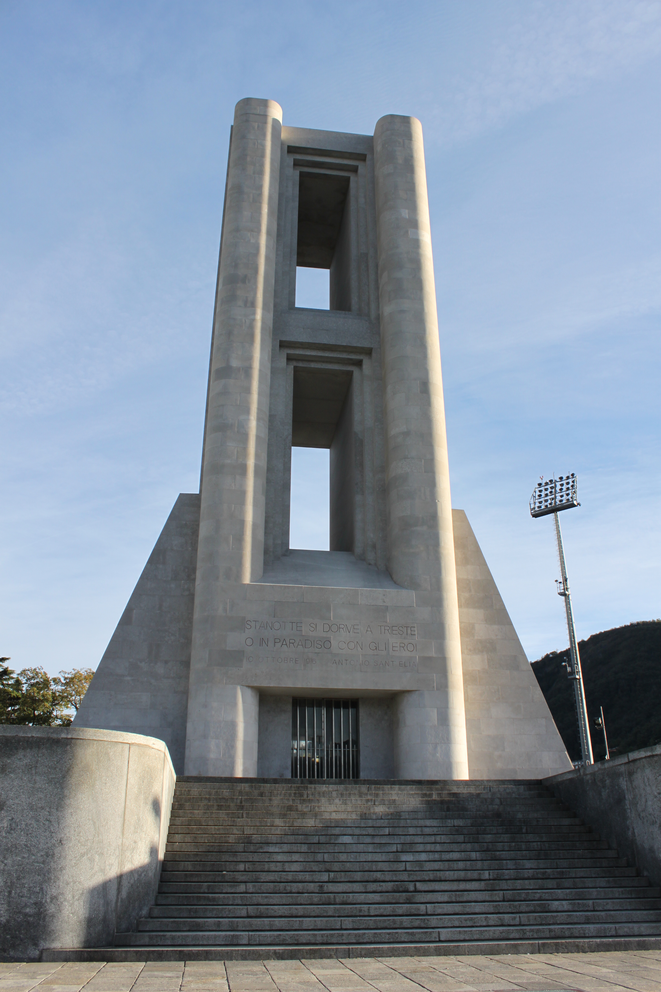 Como, Italy